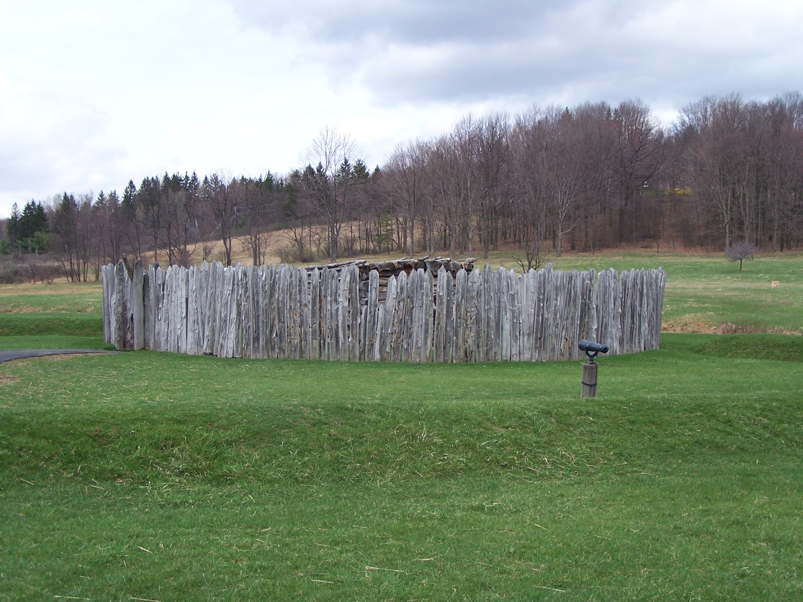 Fort Necessity replice at the Fort Necessity National Battlefield.